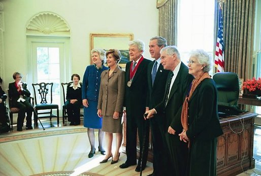 President George W. Bush and Laura Bush pose for a photo with actor Hal Holbrook, center, one of the National Humanities Medal Award recipients, during a ceremony in the Oval Office Friday, Nov. 14, 2003.